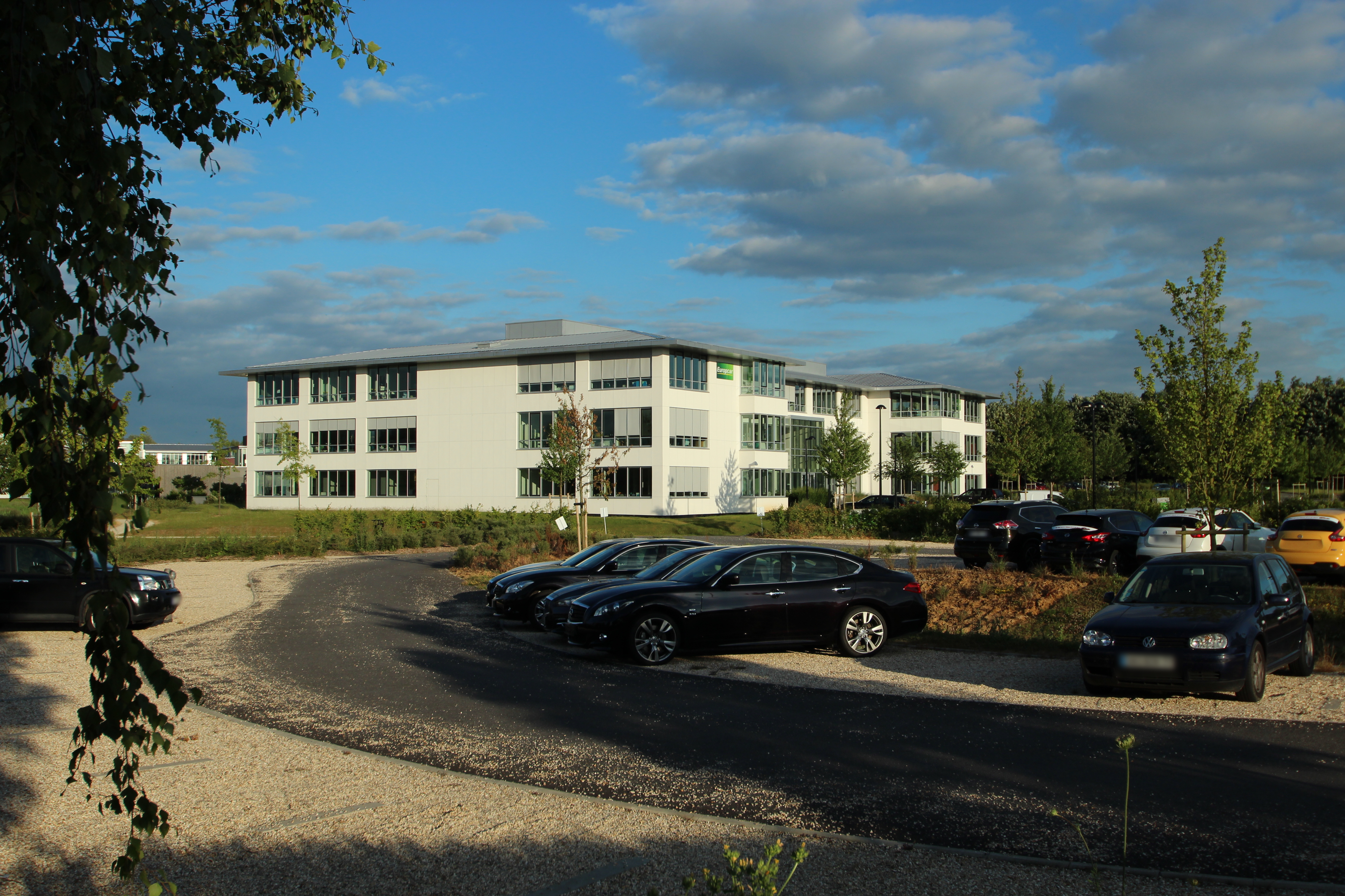 Le Val Saint-Quentin is a business park located in Voisins-le-Bretonneux, France. This building is the Europcar head office. Object location48° 45′ 34.09″ N, 2° 03′ 39.17″ E